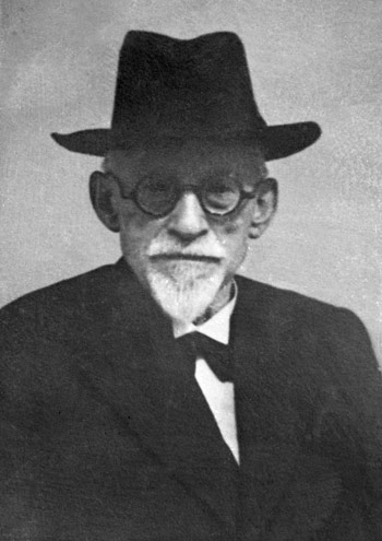 Elderly gentleman in hat